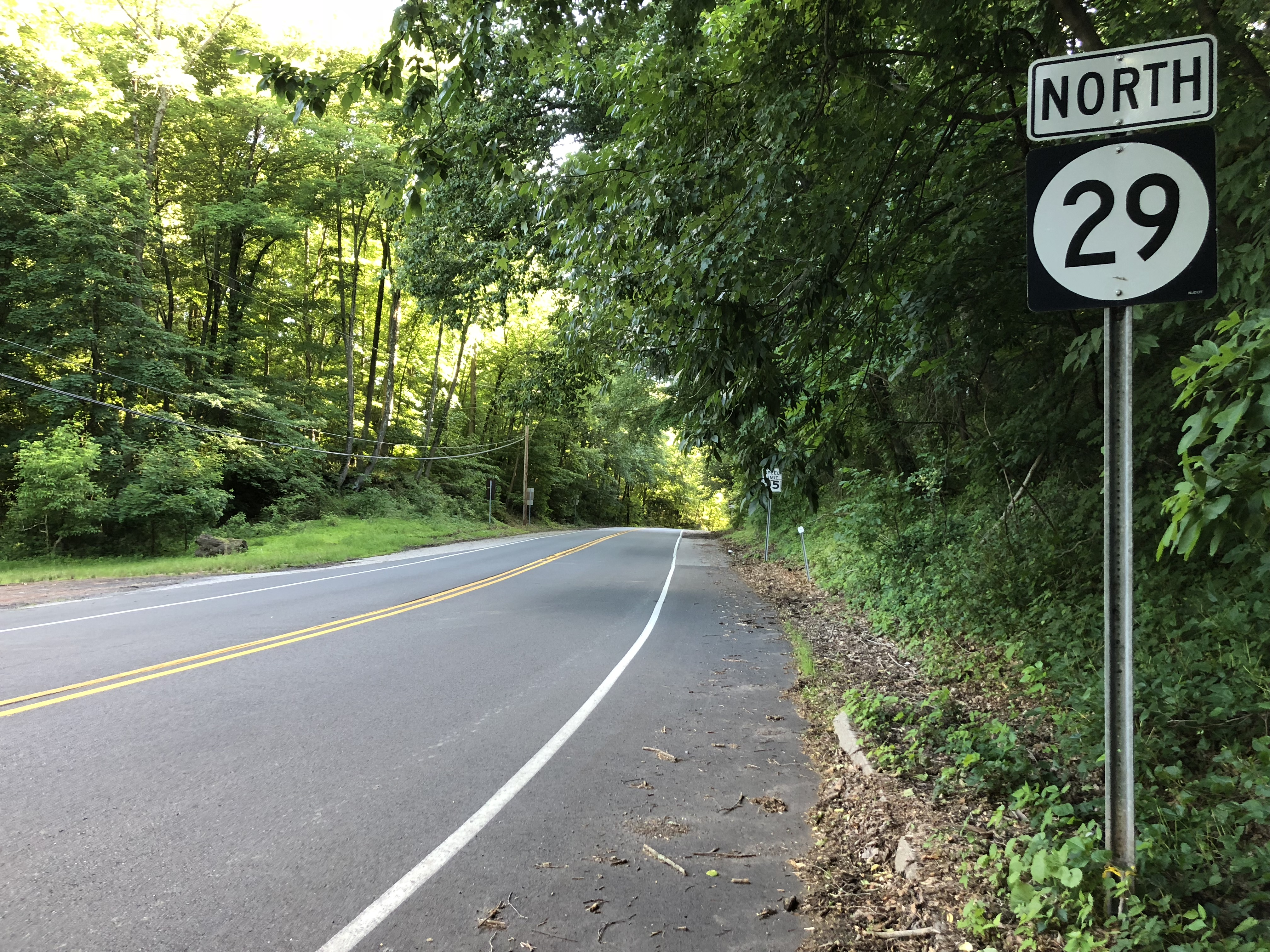 View north along New Jersey State Route 29 (River Road) just north of Hunterdon County Route 519 (Kingwood-Stockton Road) in Delaware Township, Hunterdon County, New Jersey